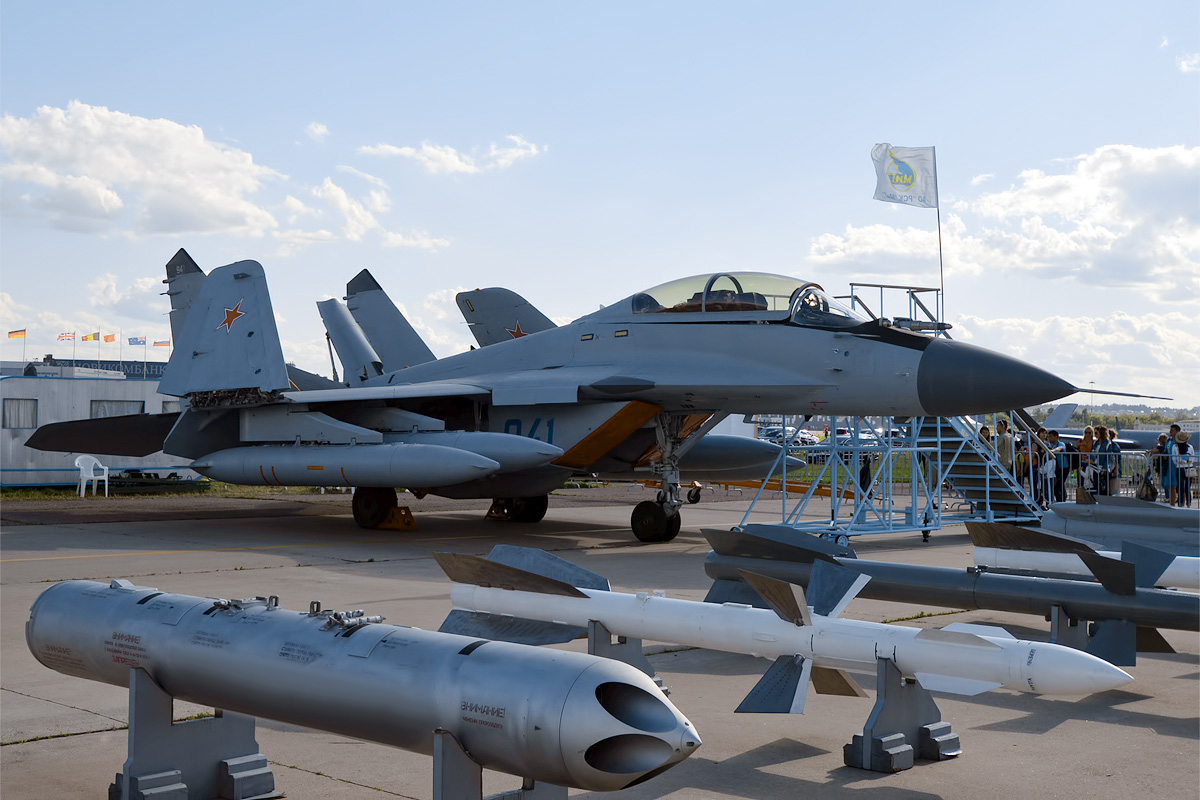 Russian Navy, 941, Mikoyan-Gurevich MiG-29K